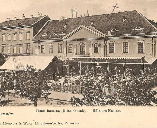 View of the Military Casino in Temesvar (nowadays Timişoara)